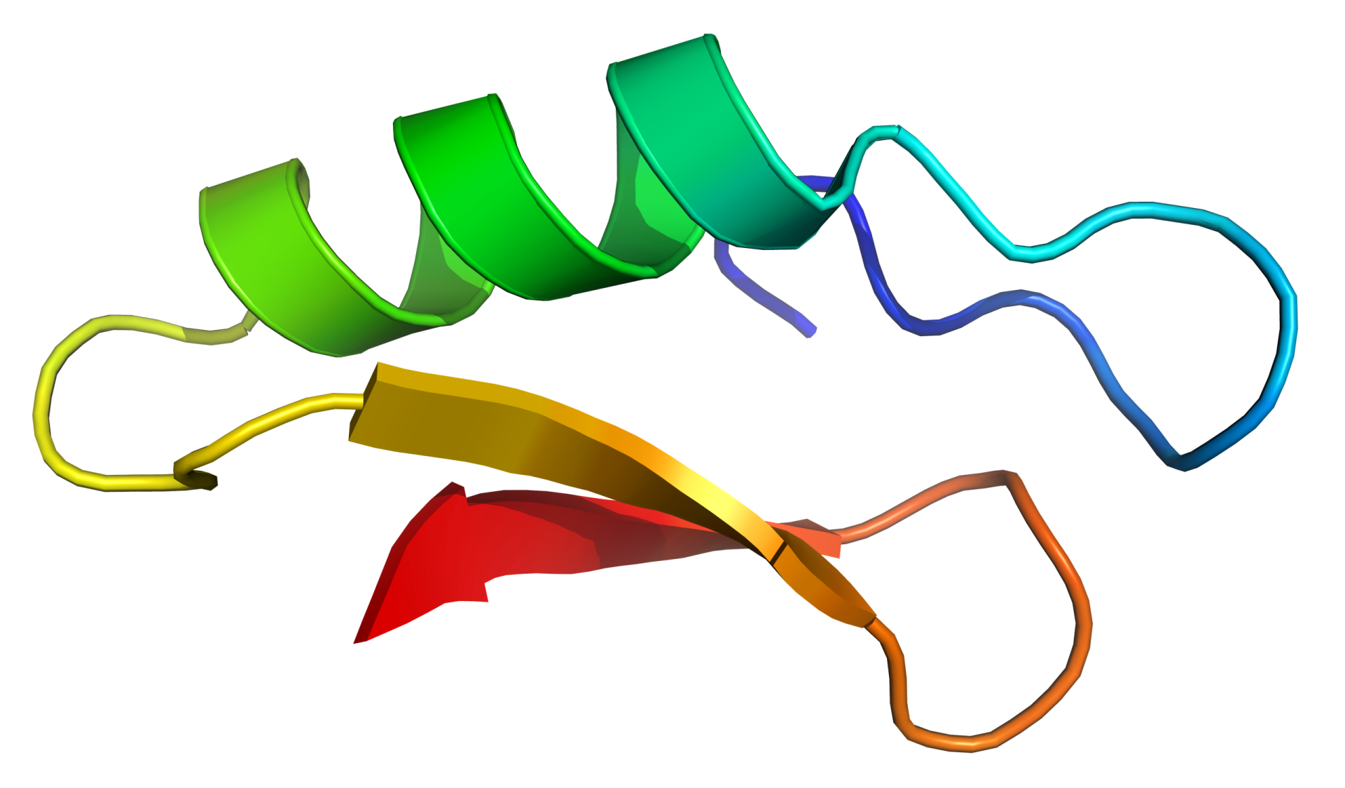 Ribbon diagram of plectasin, a defensin from Pseudoplectania nigrella.Created using PyMOL ( and GIMP. Optimized with OptiPNG.